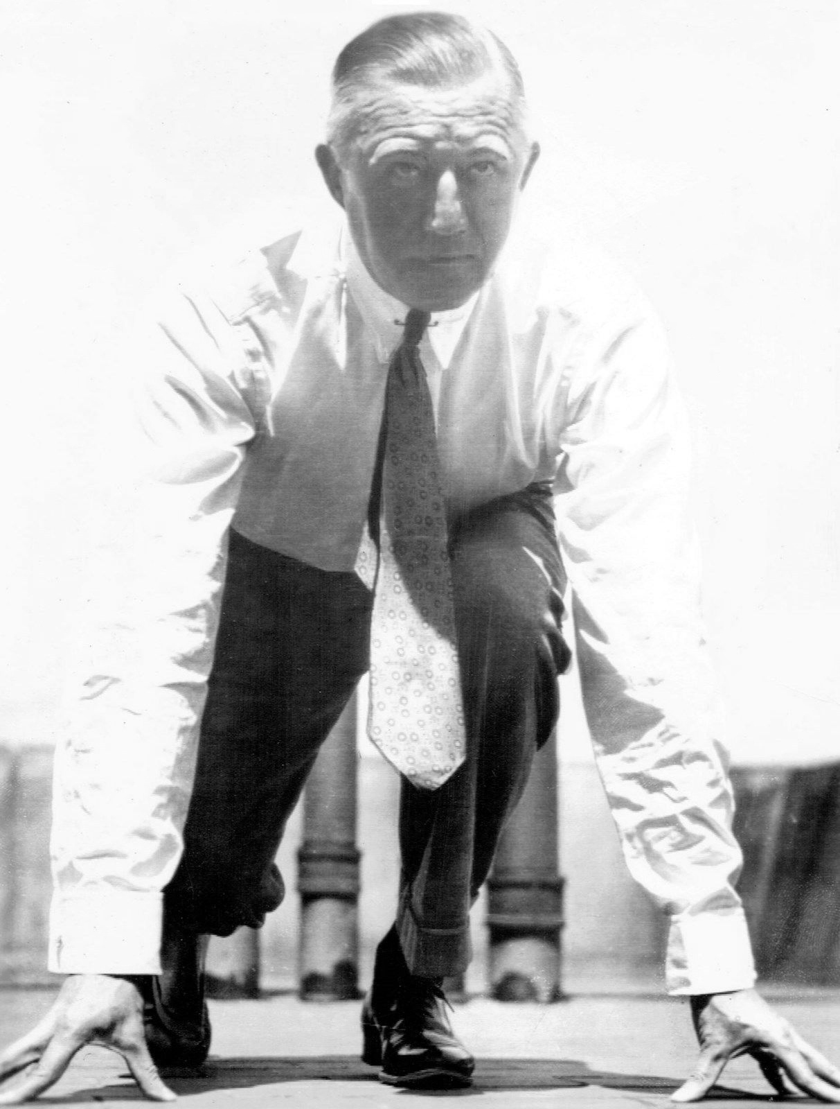 1936 AP Wire Photo Olympic Gold medal winner athlete Paul Pilgrim NYAC manager